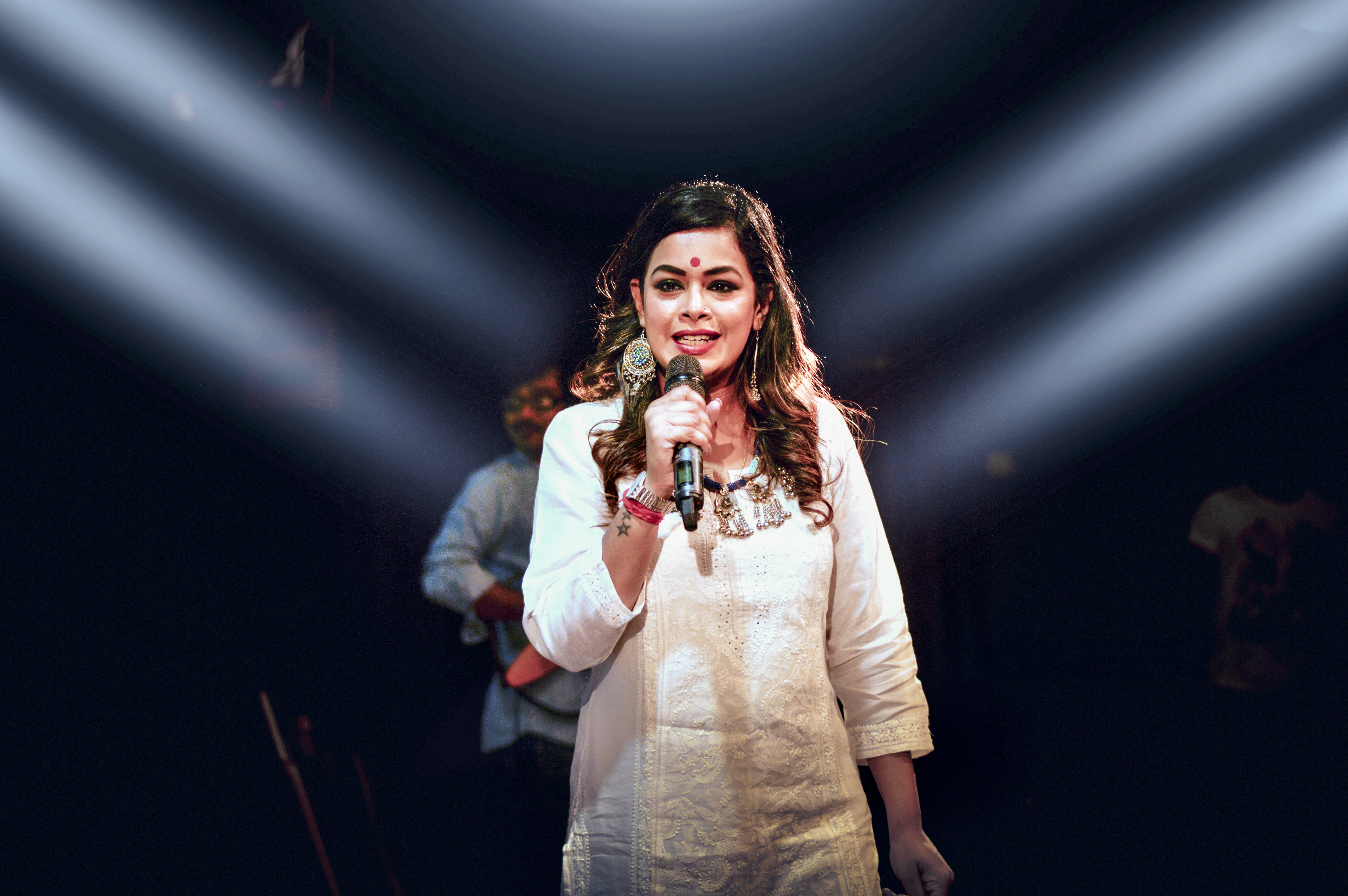 Iman Chakraborty was live in the Ehimoy 2018 at Rabindratirtha, Rajarhat. I'm Sudipto Bakshi, The official photographer of Ehimoy 2018 and also this work is mine.